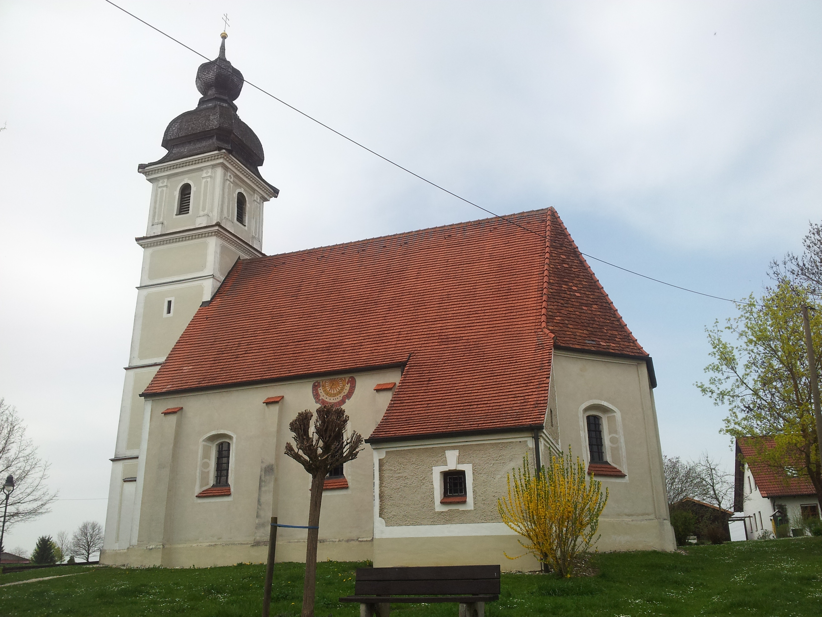 Church St. Ulrich (Thann)